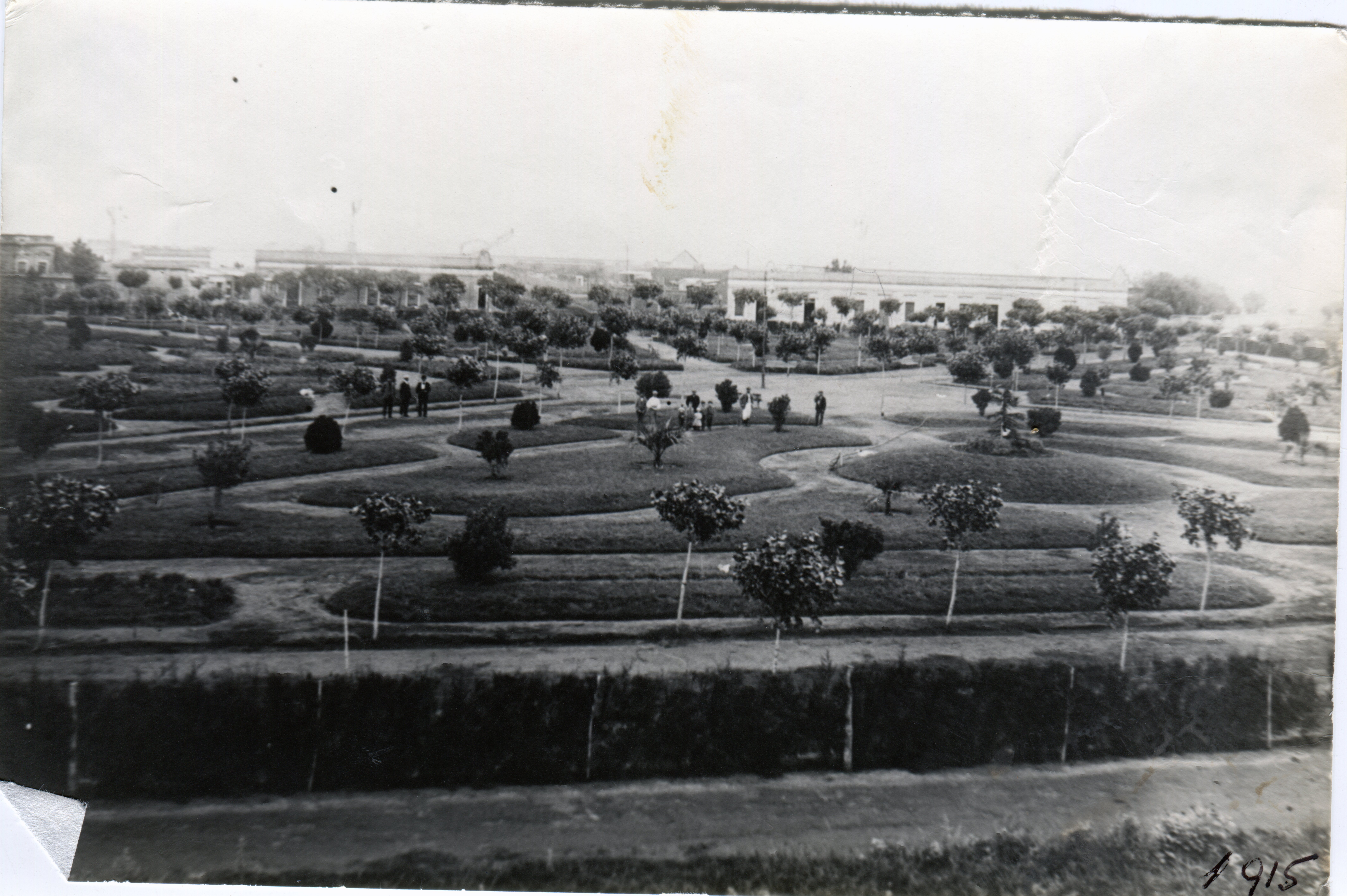 Place of General Levalle in start the XX century